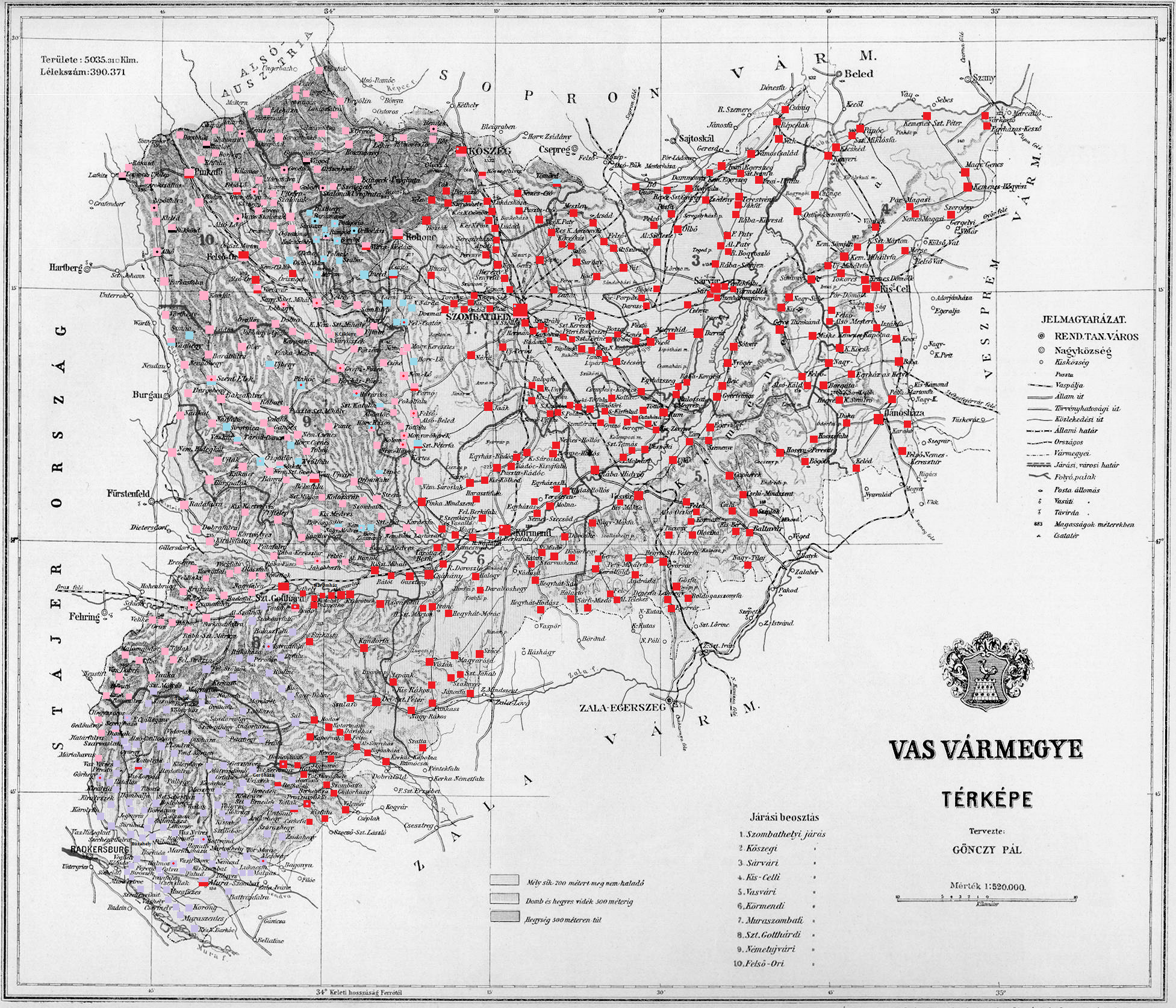 Ethnic map of the county (with data of the 1910 census). Key: red - Hungarians; pink - Germans; light blue - Croatians; light violet - Slovenes; black - Roma. Coloured dots in plain rectangles imply the presence of smaller minority populations (generally more than 100 people or 10%). Multicoloured rectangles imply cities and villages with multi-ethnic populations with the order of the stripes following the ethnic composition of the settlement.